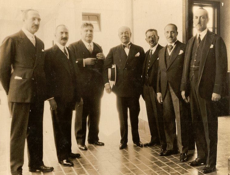 Directiva del Banco Italiano de Lima